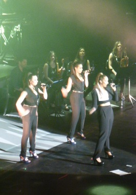 Leona Lewis, Better in Time/Man Down, Royal Albert Hall, 9th May, Glassheart Tour 2013 (2)